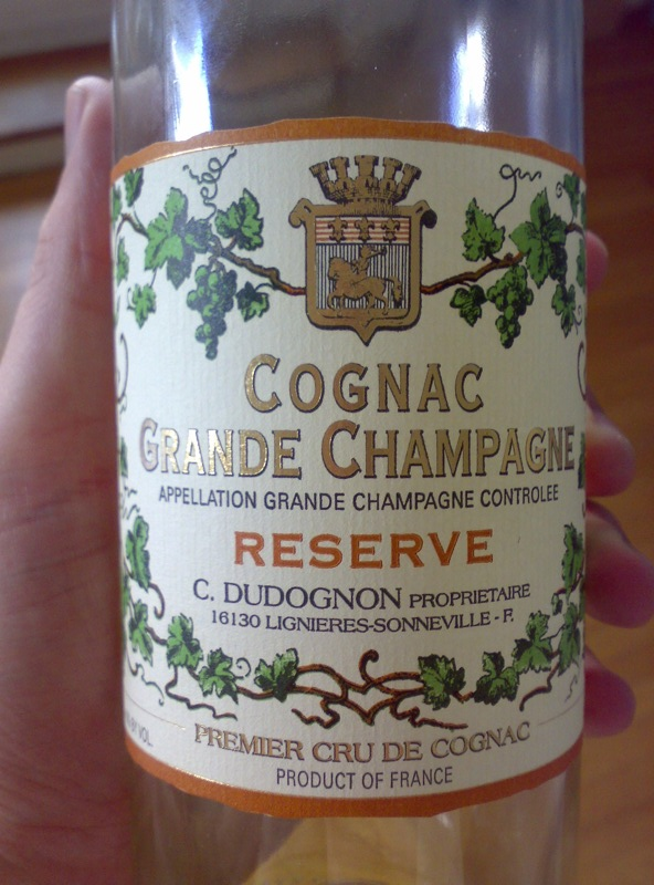 Dudognon Reserve Grande Champagne Cognac